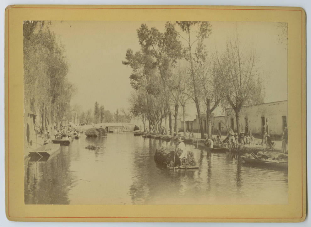 Title: [Canal de la Viga] Creator: Briquet, Abel Date: ca. 1885-1899 Part Of: Views in Mexico Place: Mexico City (Mexico D.F.), Mexico Physical Description: File: 1 photographic print on boudoir card mount: albumen; 13 x 19 cm on 16 x 22 cm mount Rights: Please cite DeGolyer Library, Southern Methodist University when using this file. A high-resolution version of this file may be obtained for a fee. For details see the web page. For other information, . For more information and to view the image in high resolution, see: View the Mexico: Photographs, Manuscripts, and Imprints